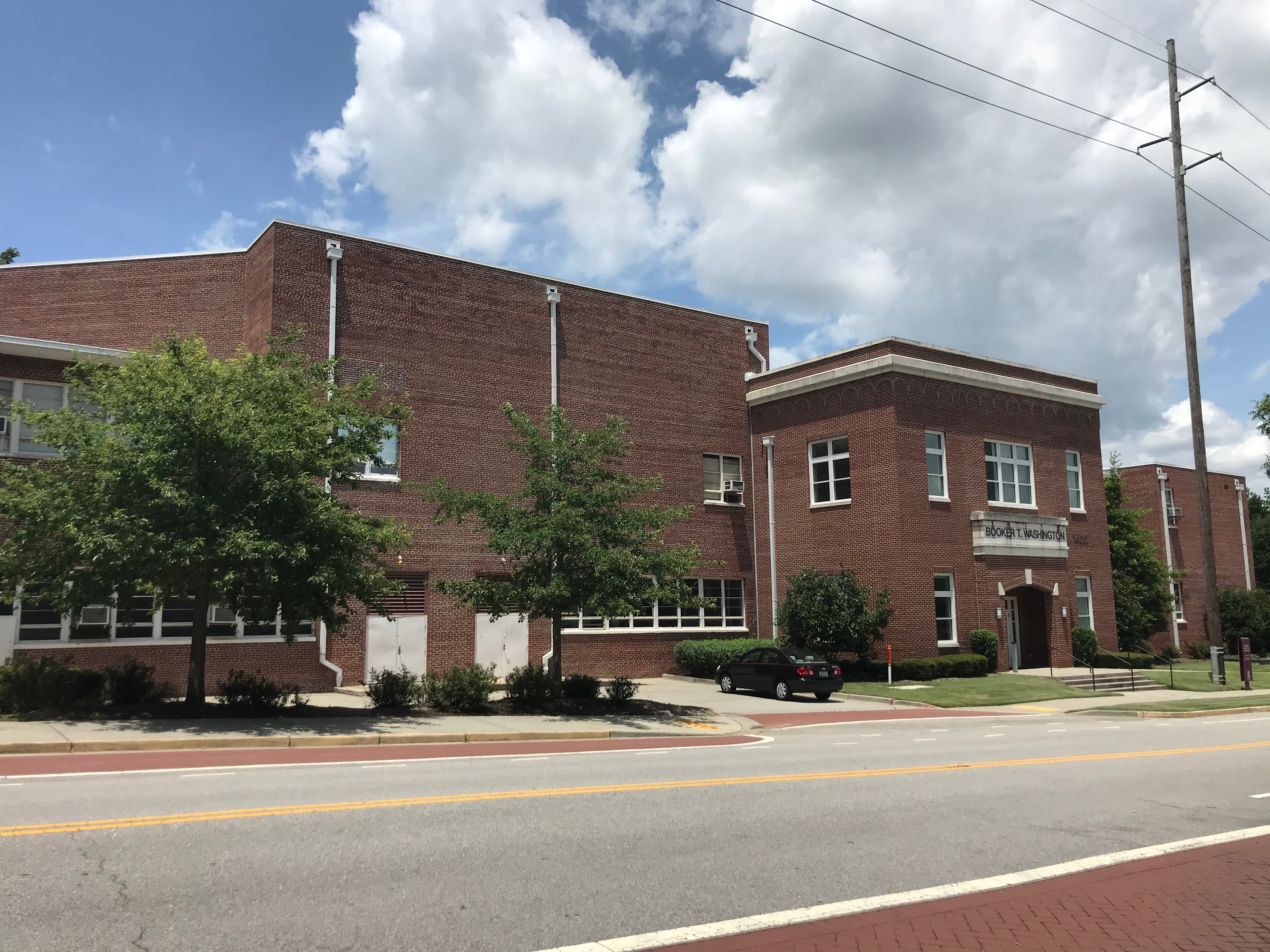 Booker T. Washington High School (Columbia, SC) - The first black school in Columbia.